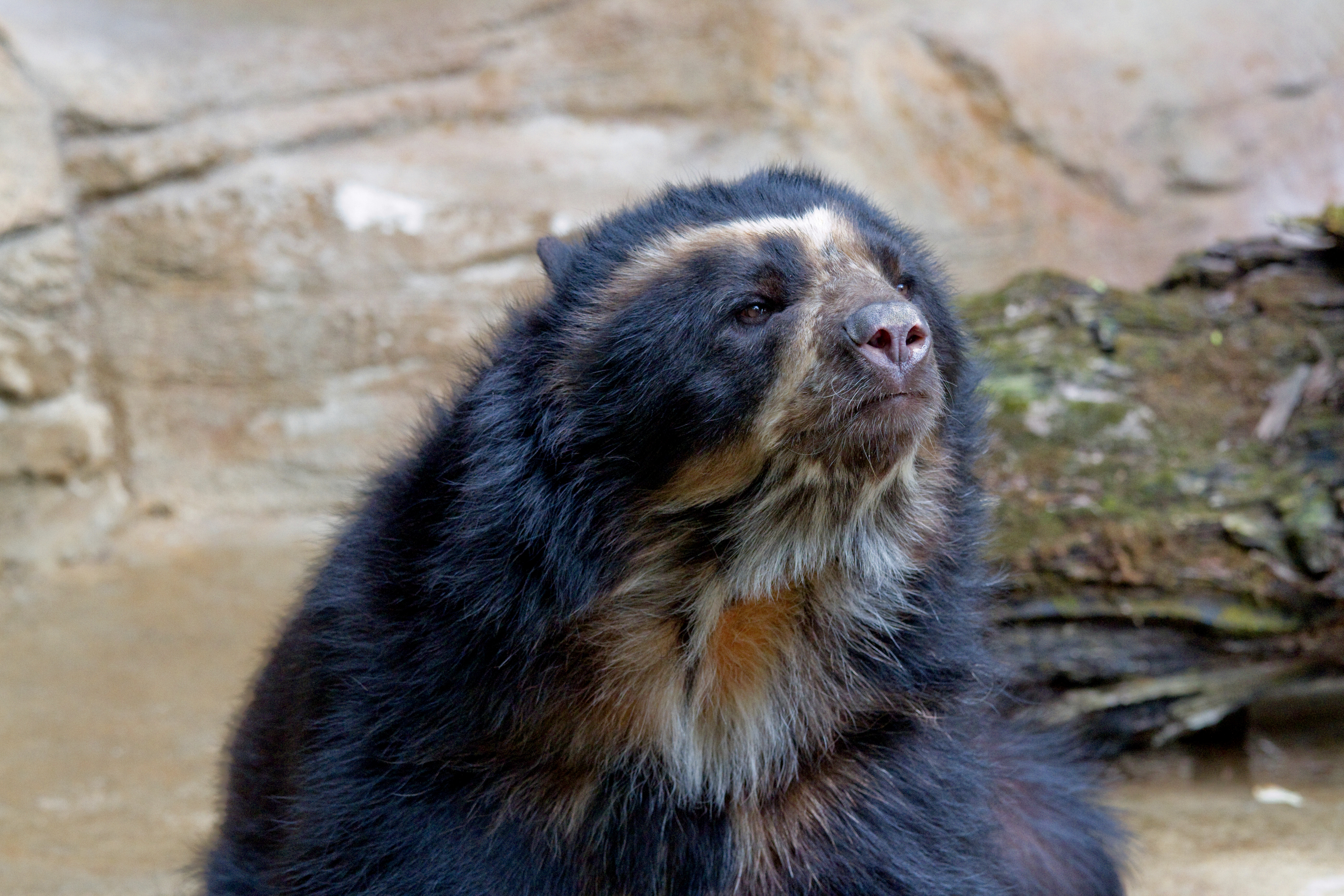 Tremarctos ornatus at the Cincinnati Zoo.